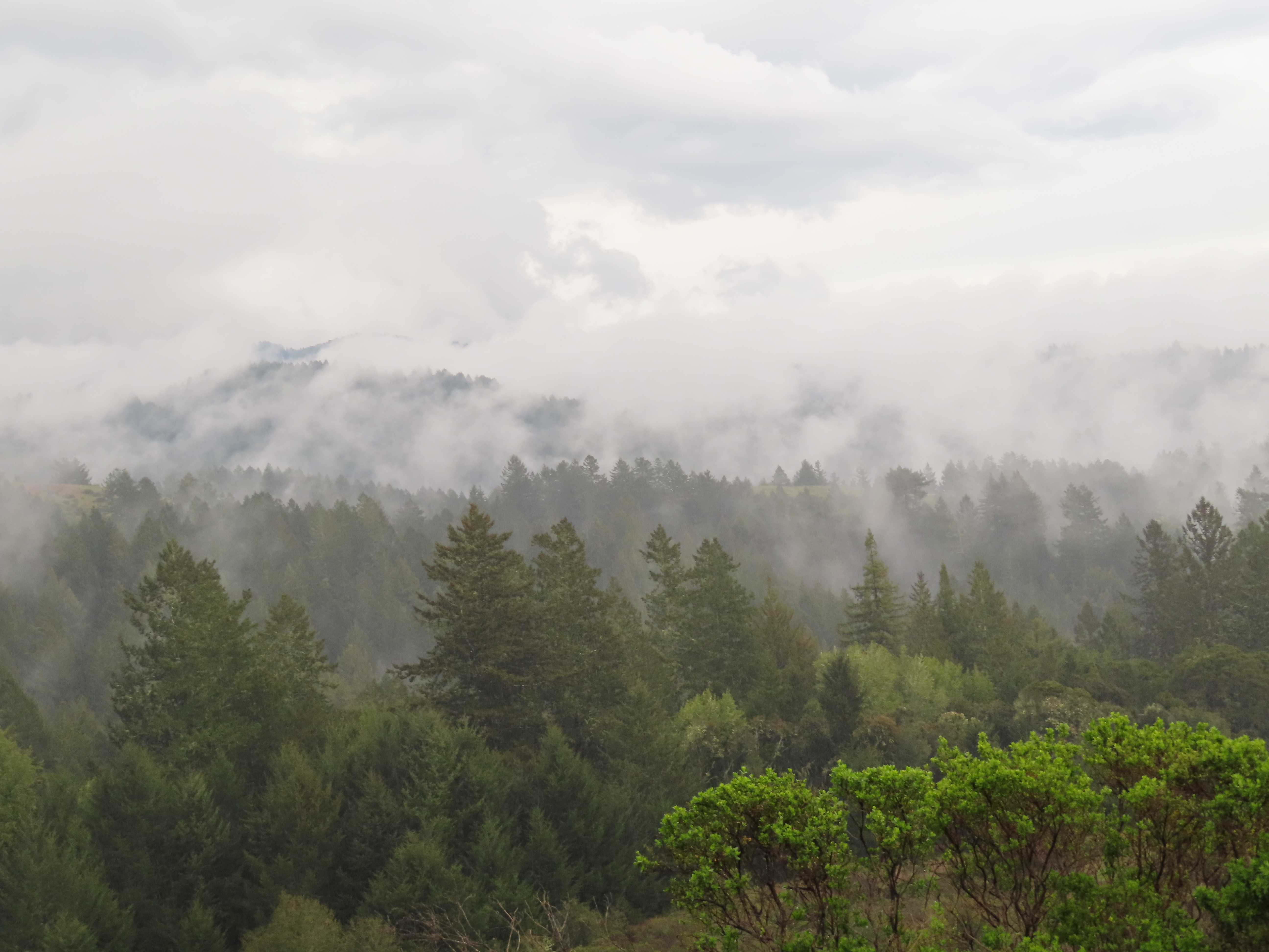 View towards Portola Redwoods State Park, San Mateo County, CA. March 2020